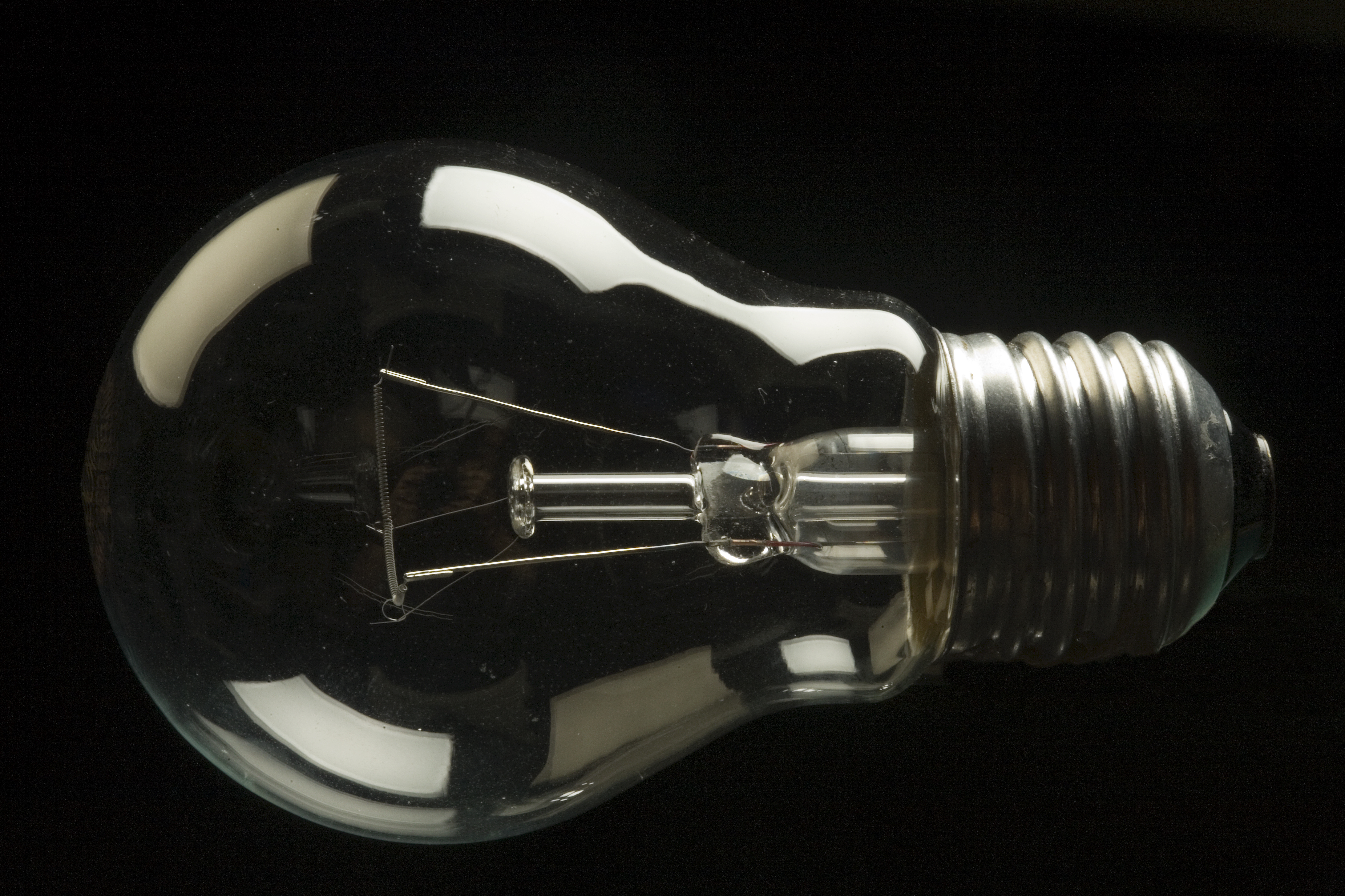 Light bulb